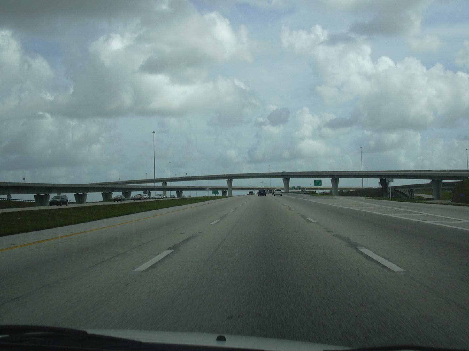 Overpasses. Location: Florida, Ft Lauderdale